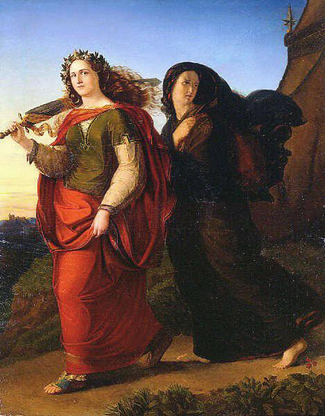 see title, showing Judith and her maid, Judith carrying her sword with which she decapitated Holfernes, and her maid carrying he bag containing Holofernes' head